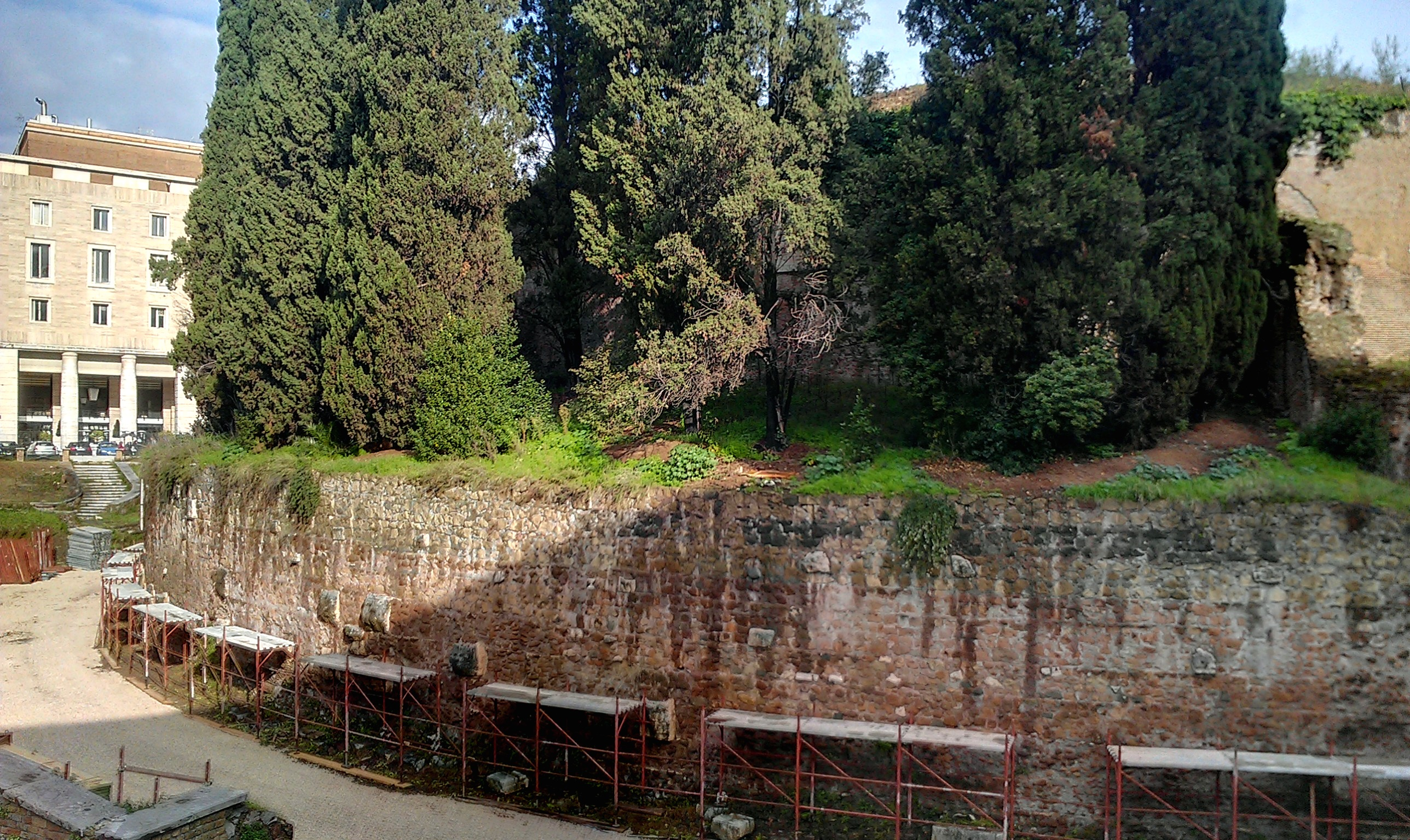 Rear of the Mausoleum of Augustus, Rome.